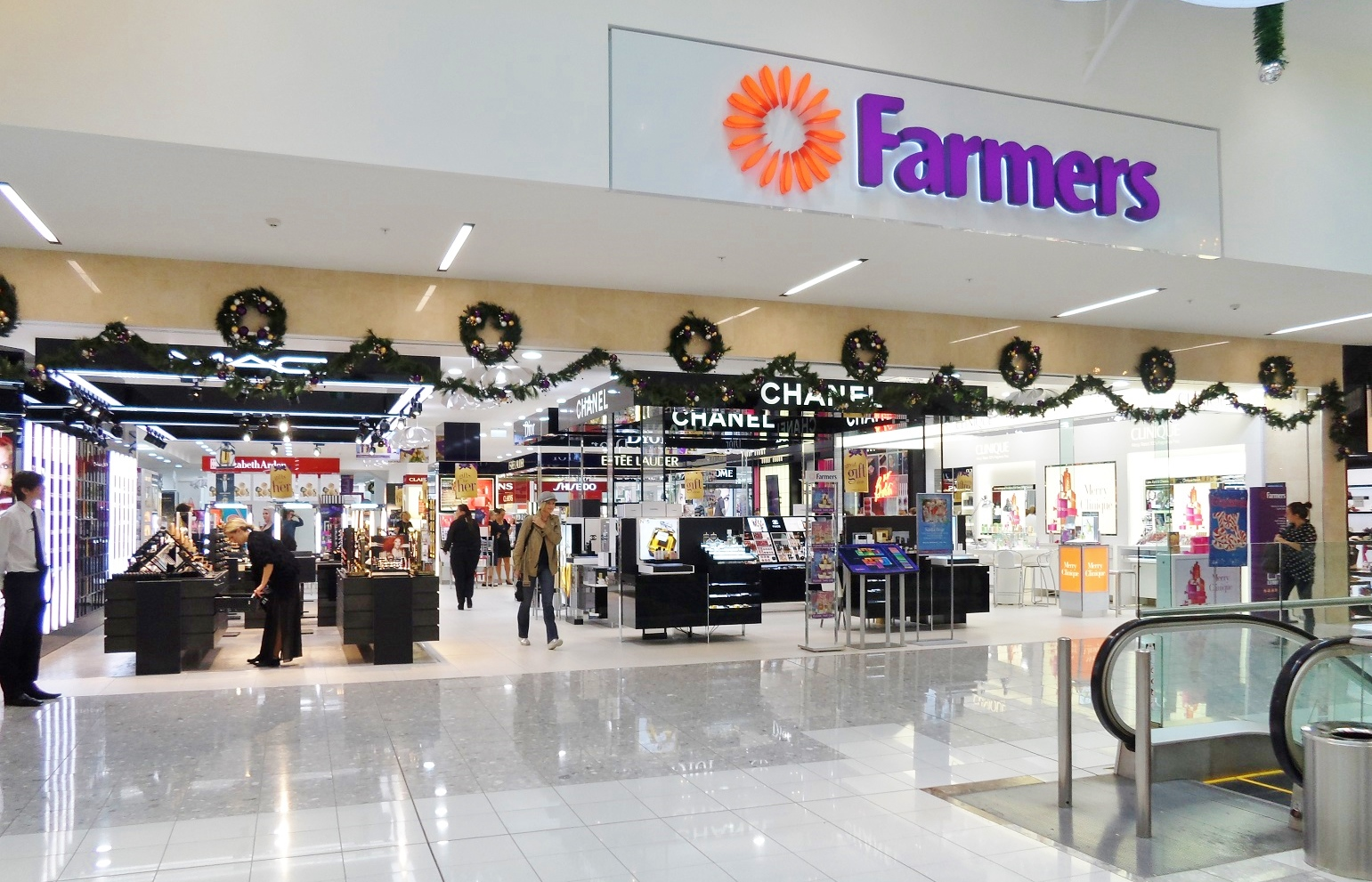 New Zealand department store Farmers Centre Place store at Centre Place in Hamilton, New Zealand in 2013.